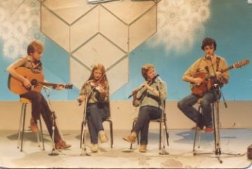 The Irish band Ragairne appearing on the RTÉ TV show SBB ina Shuí in the early '80s. L-R: Gearóid Ó Maonaigh, Mairéad Ní Mhaonaogh, Frankie Kennedy, Donal O'Hanlon.